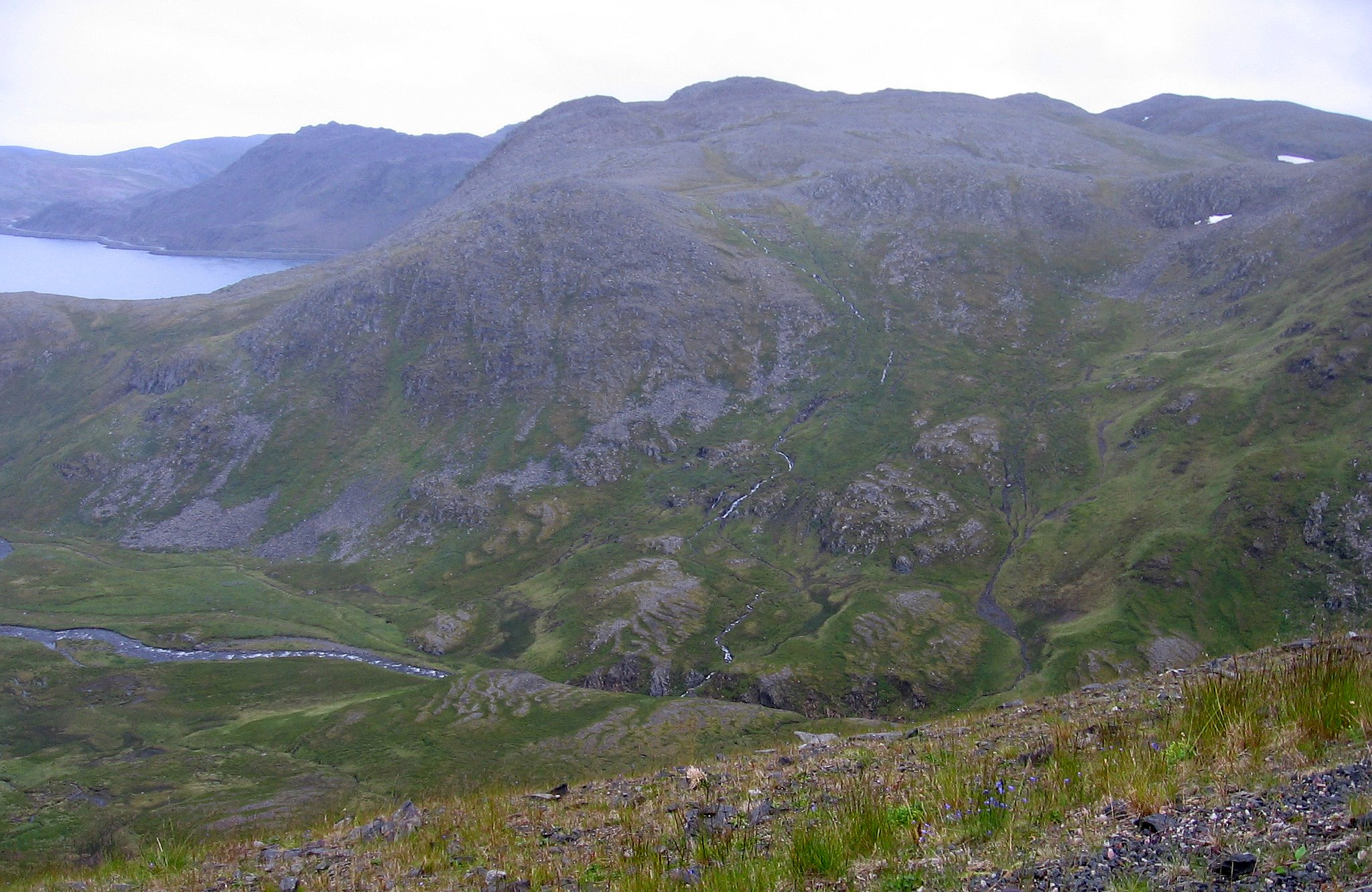 Magerøya – view from E69 road to North Cape, Norway